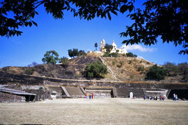 Great Pyramid of Cholula and Iglesia de Nuestra Señora de los Remedios (Church of Our Lady of the Remedies), also known as the Santuario de la Virgen de los Remedios (Sanctuary of the Virgin of the Remedies), Cholula, Puebla, Mexico